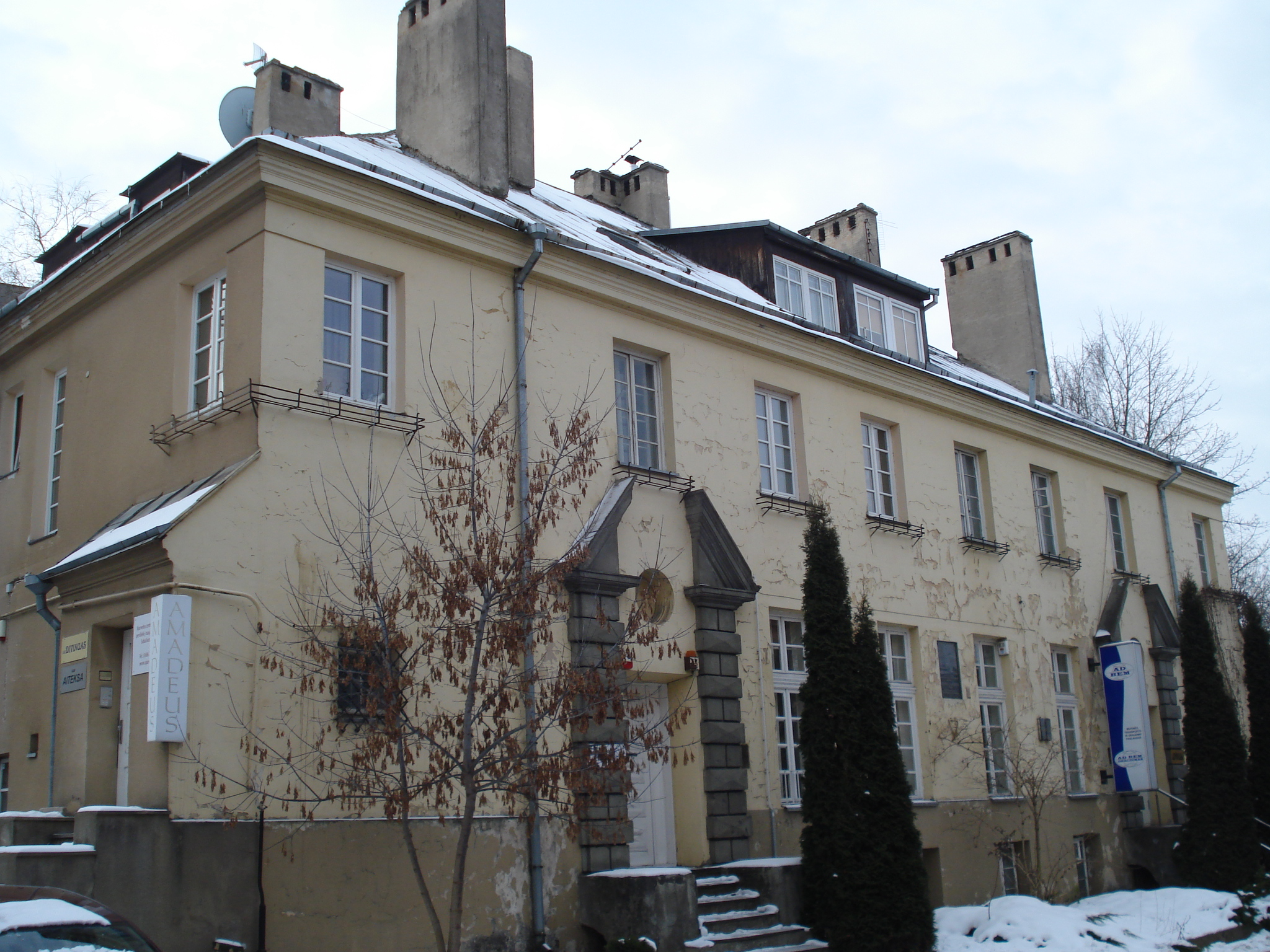 House of Stefan Narębski (1892–1966) in Vilnius (J. Savickio g. 4). The Polish architect lived here 1930-1945